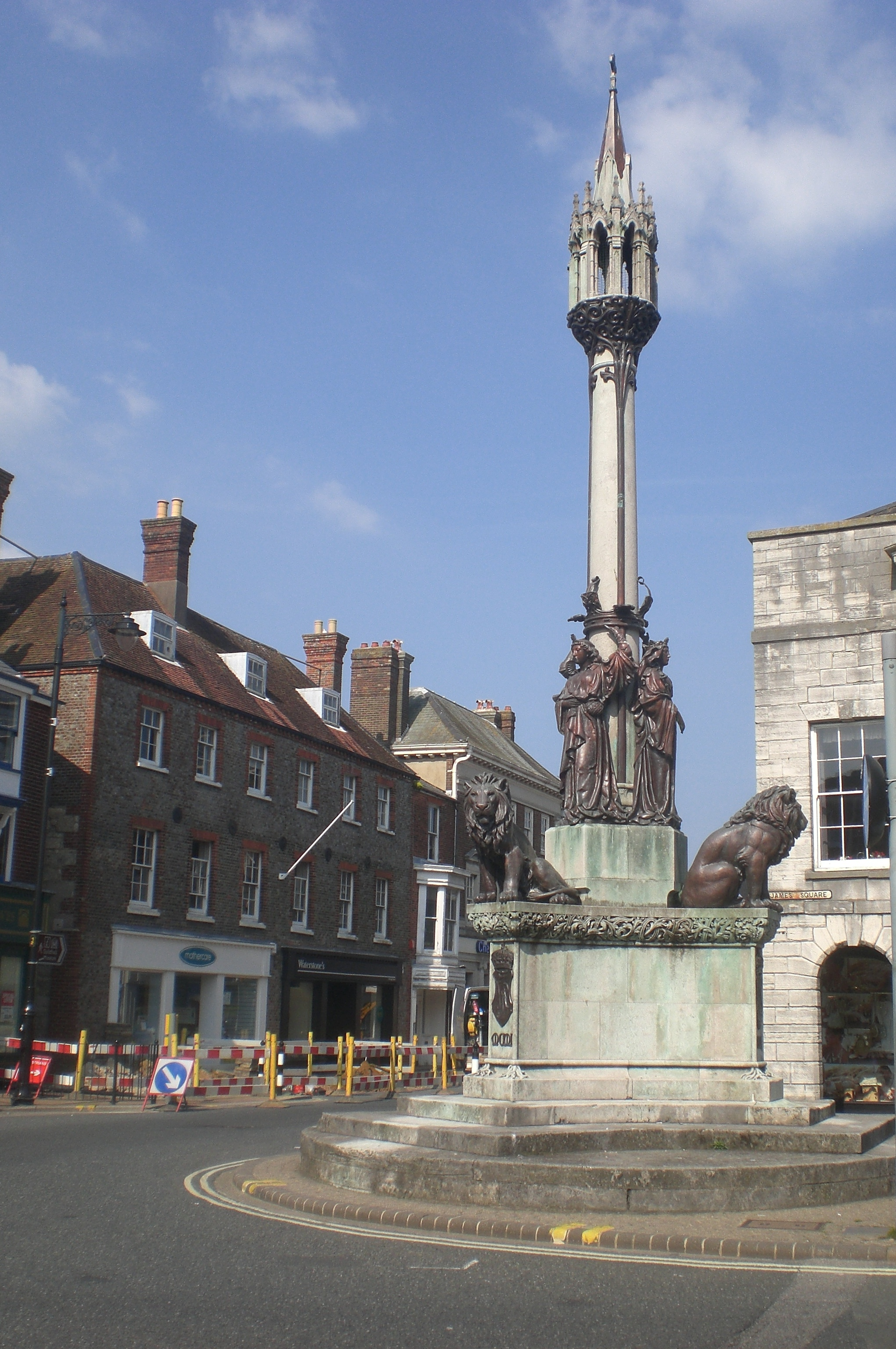 St James Square in Newport.